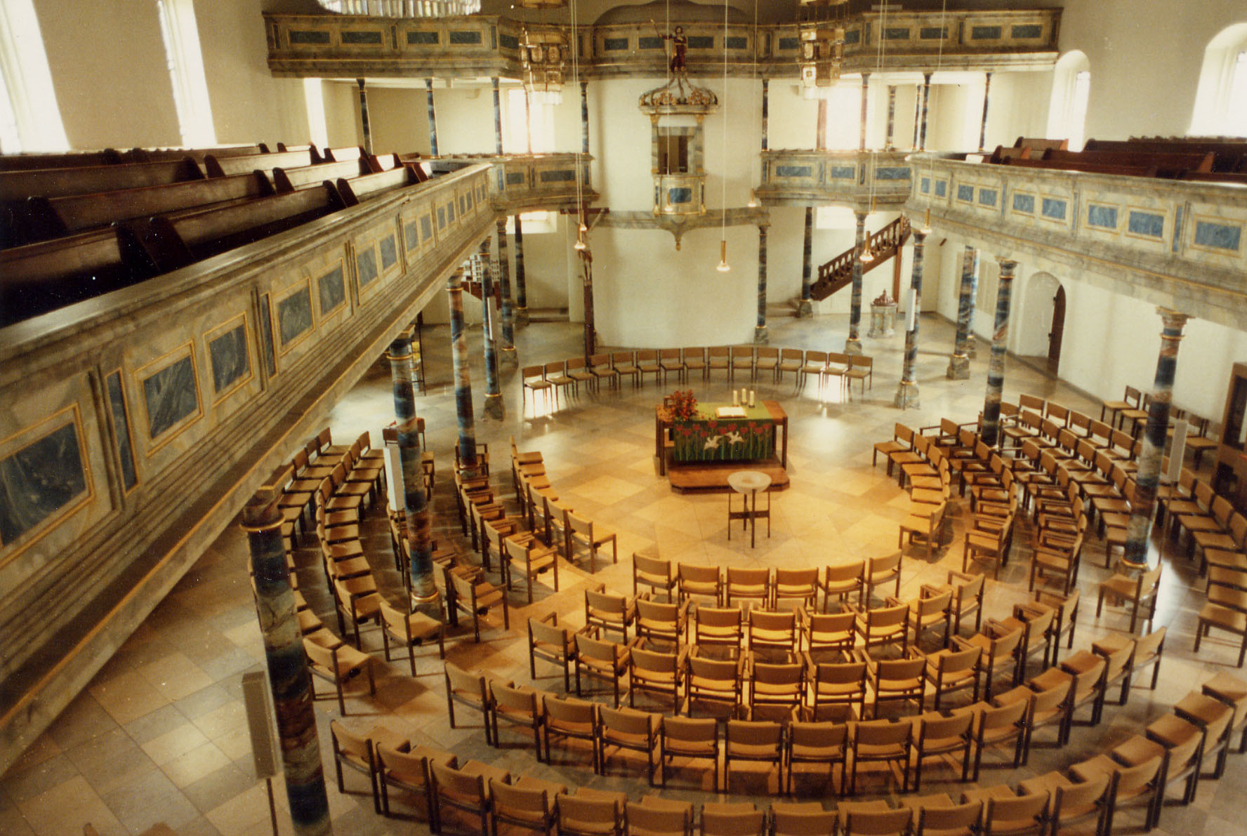 Goeppingen Town Church from Heinrich Schickhardt 1618/19. Last Renovation: 1976